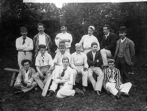 1 negative : glass, dry plate, b&w ; 16.5 x 21.5 cm.